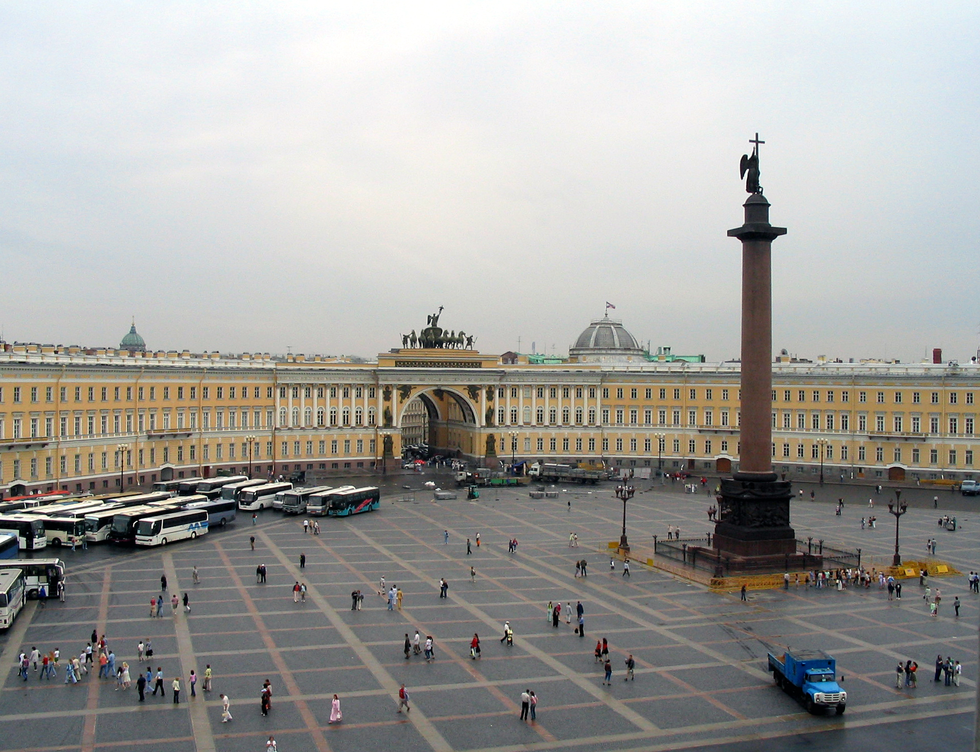 Saint Petersburg (Russia), Palace Square, Alexander Column.